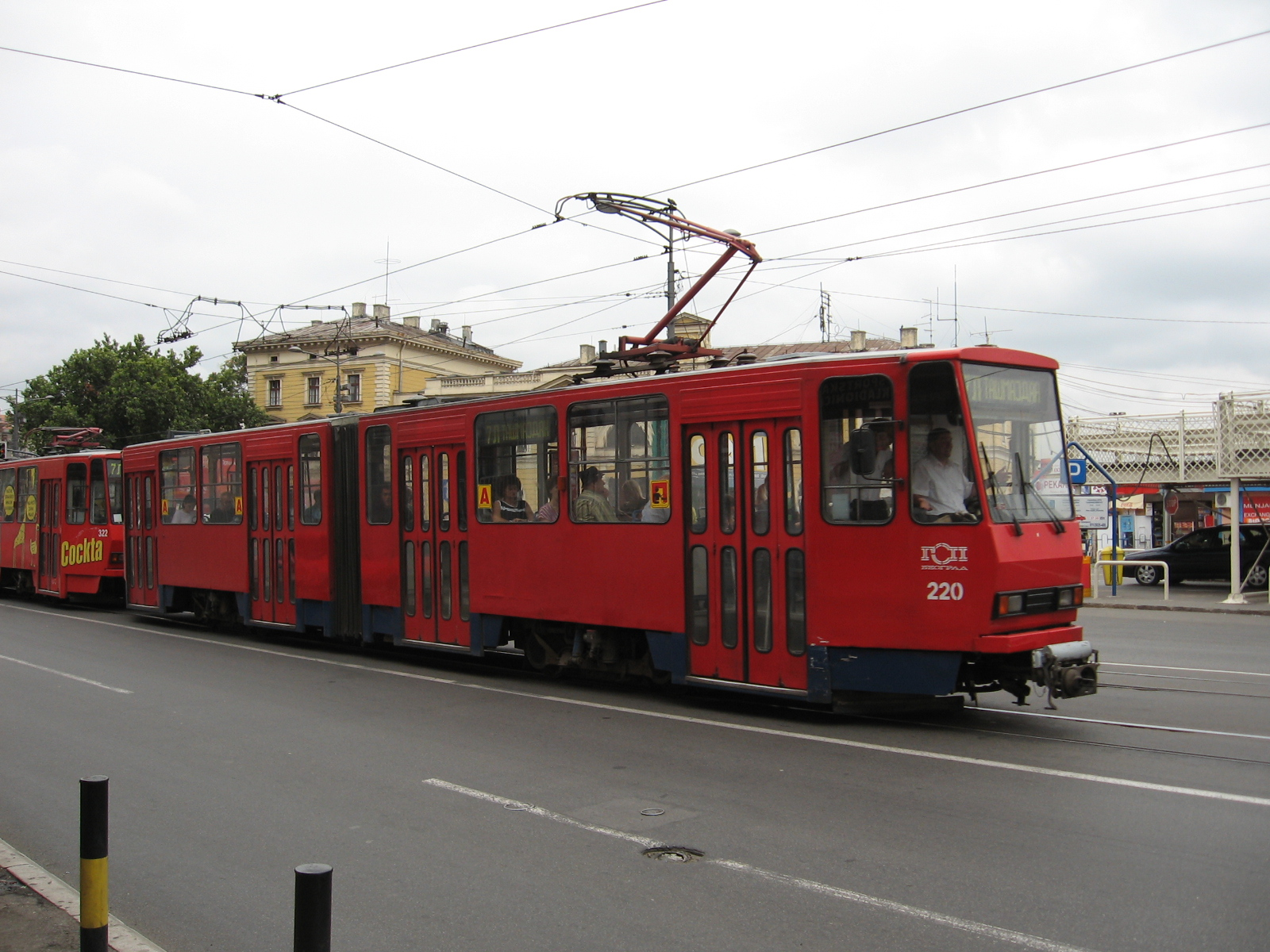 Tatra KT4YUBM Tram 220 in Belgrade